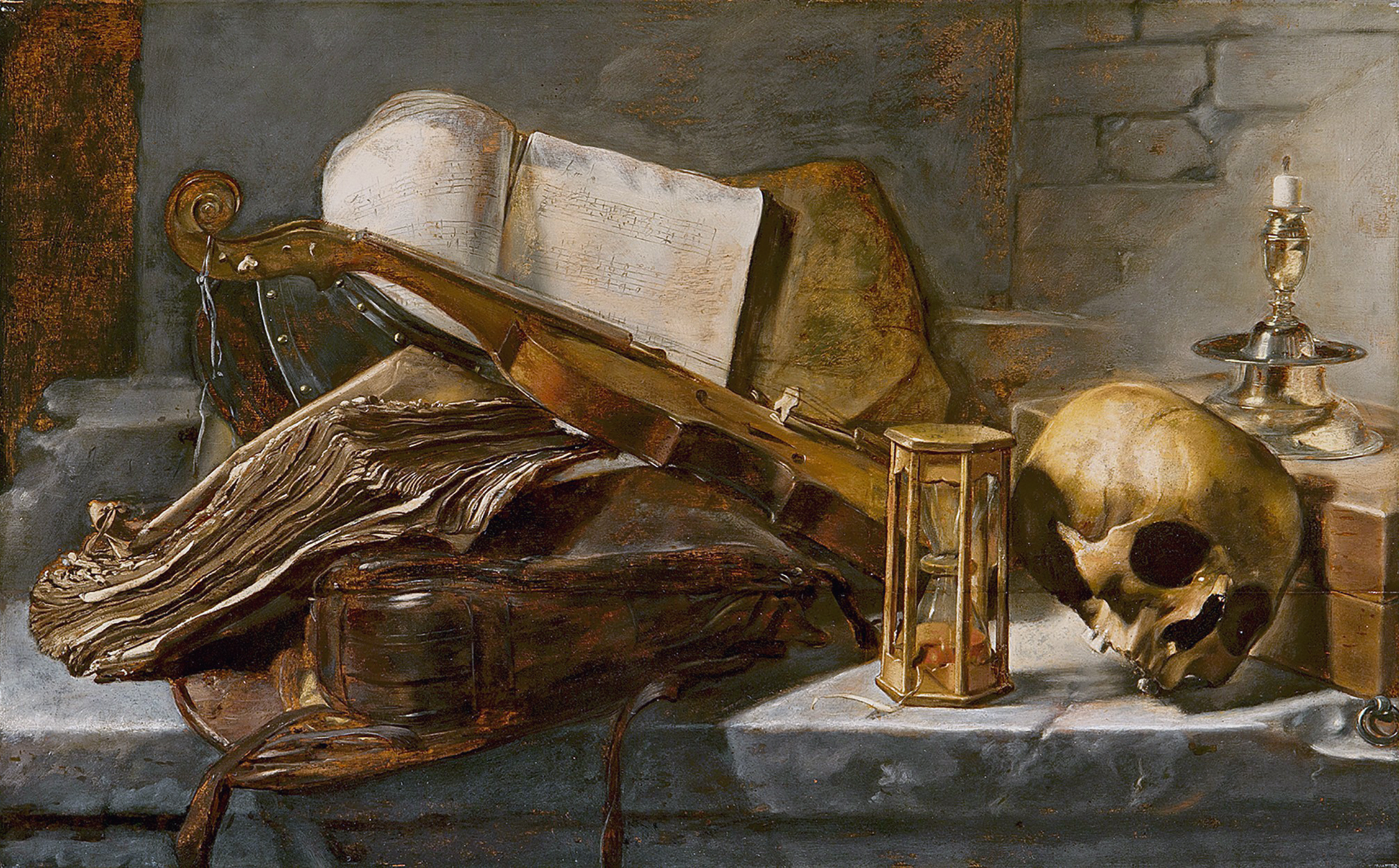 Vanitas still life[1] oil on panel 59 x 96 cm inscribed b.c.: A° 1627